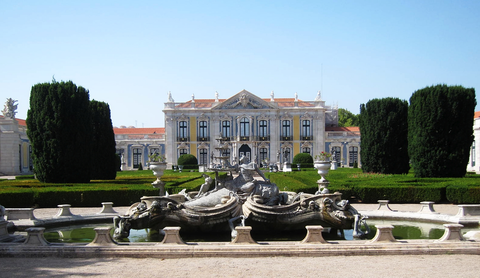 The National Palace at Queluz, Portugal.